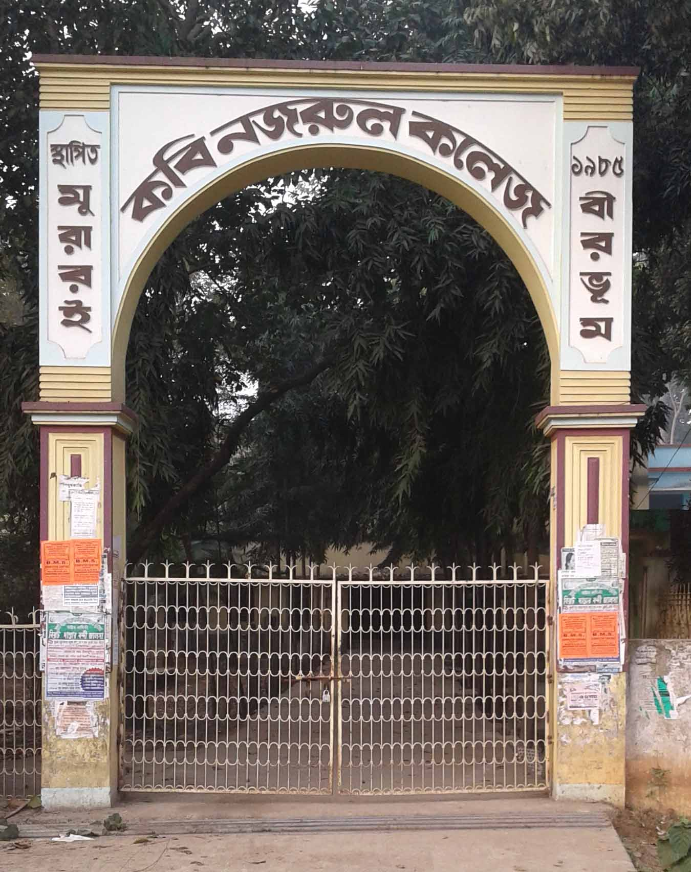 KABI NAZRUL COLLEGE GATE PICTURE